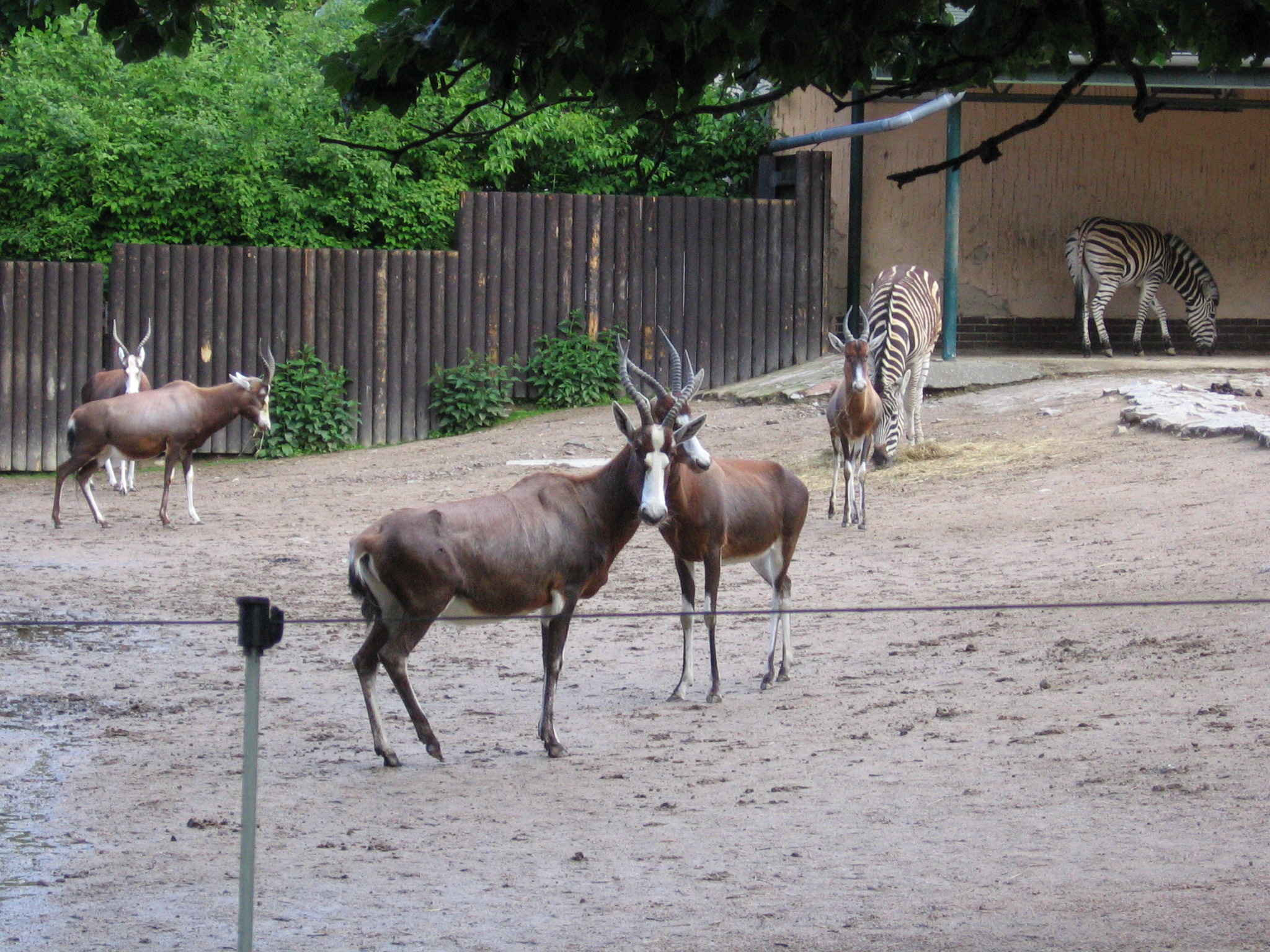 Damaliscus dorcas phillipsi in the ZOO Liberec, Czech Republic